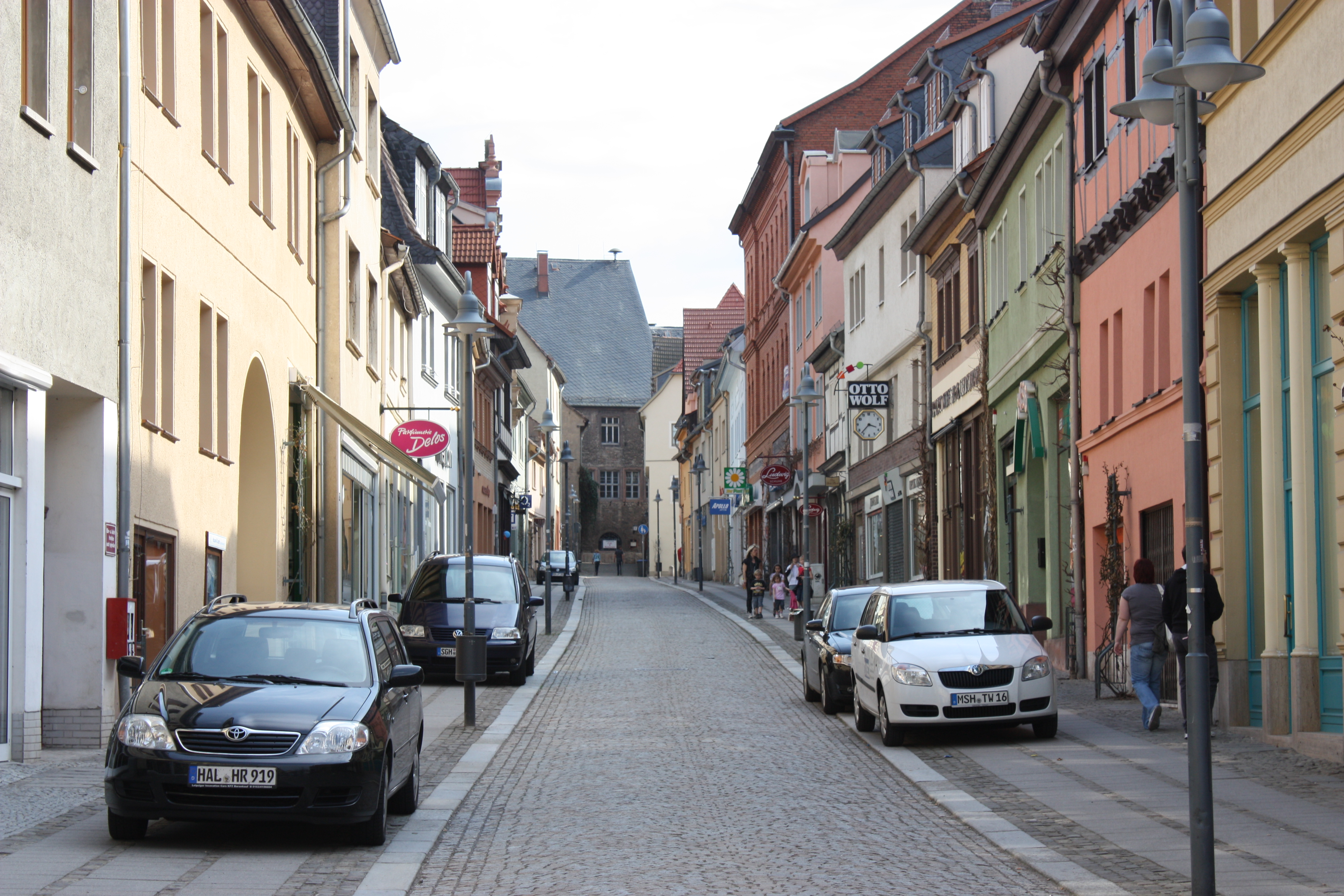 Sangerhausen, the Göpenstraße